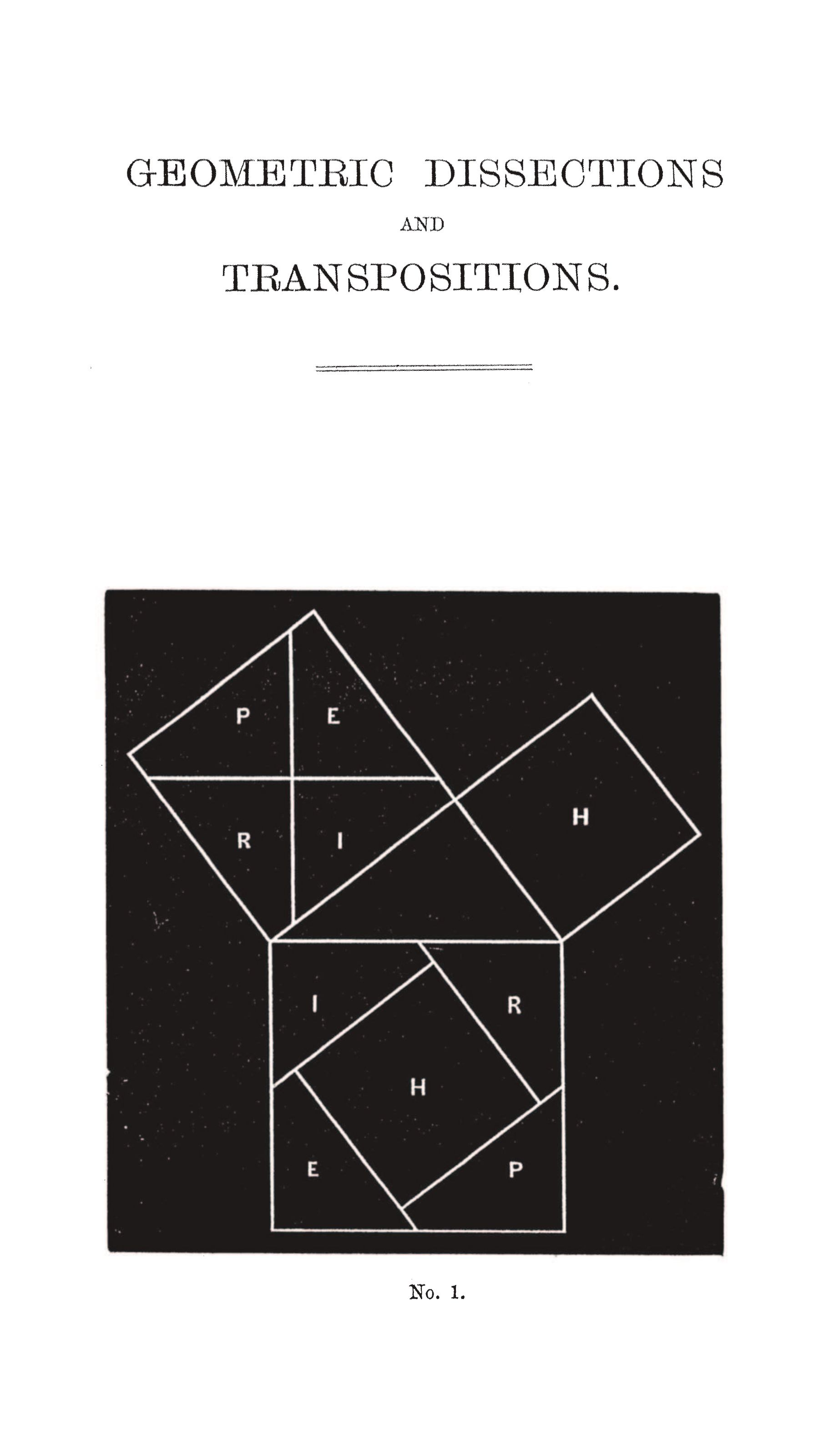 Page 1 of Perigal's 1891 publication.